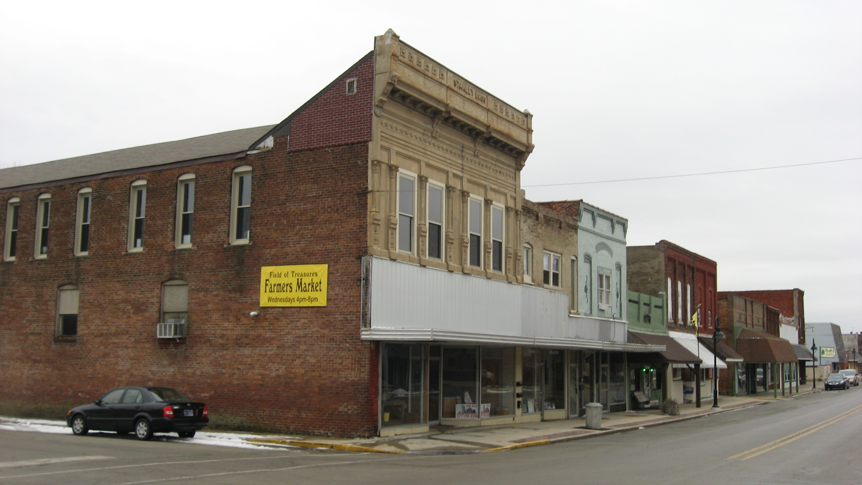 Buildings on the eastern side of the 300 block of S. Main Street in Sheridan, Indiana, United States. This block is part of the Sheridan Downtown Commercial Historic District, a historic district that is listed on the National Register of Historic Places.